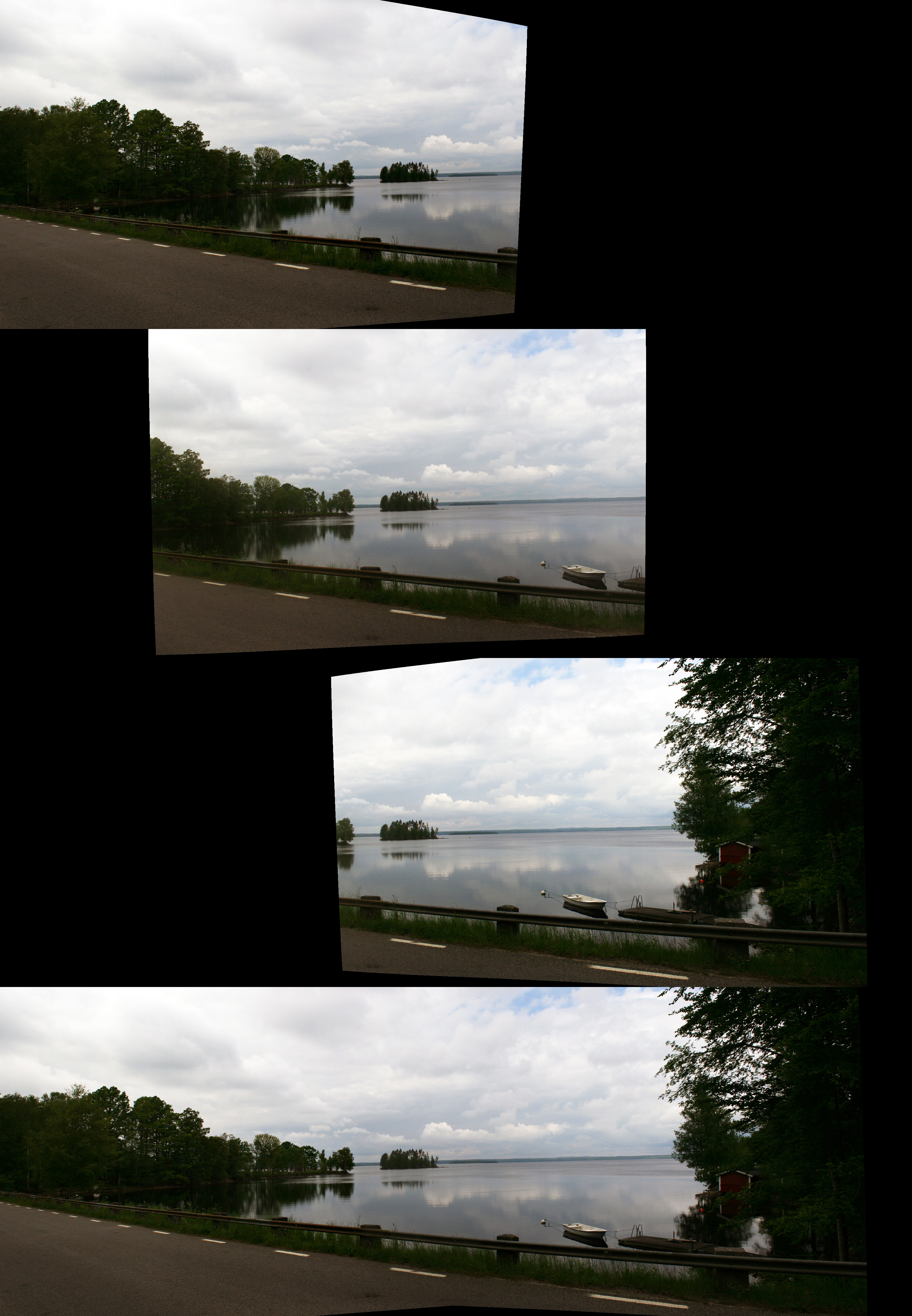 Panorama stitched from three photos with PTgui.